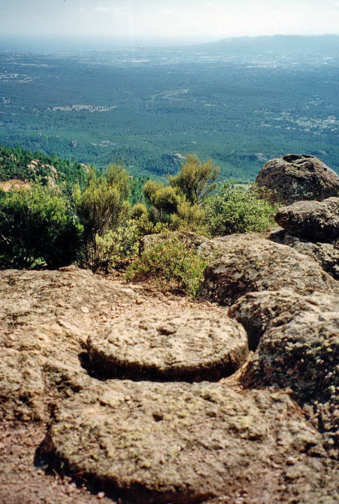 Millstone quarry in Bagnols en Foret, Var